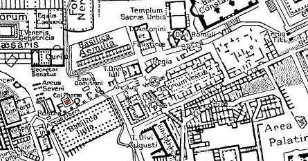 Map of antique downtown Rome, explicitly Forum Romanum, with small red square marking position of Column of Phokas, drawing.